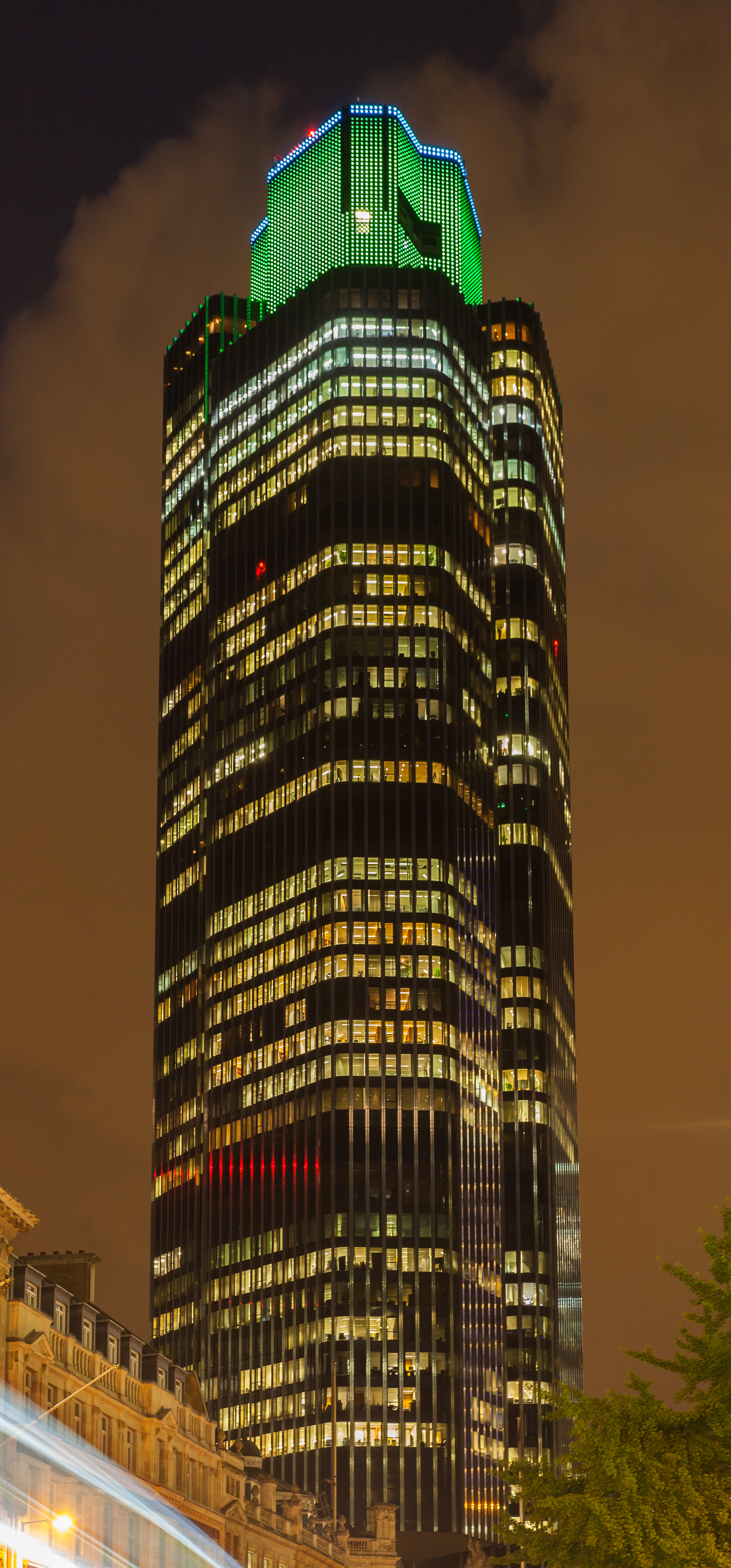 Tower 42, London, England